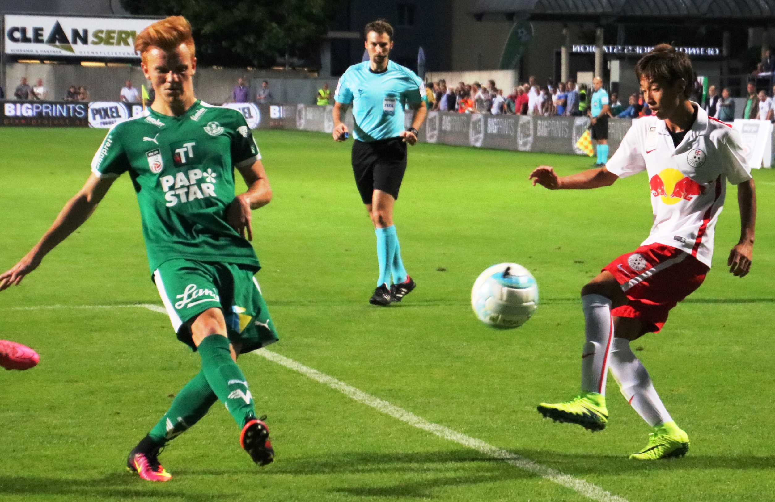 league match Austria 2nd league